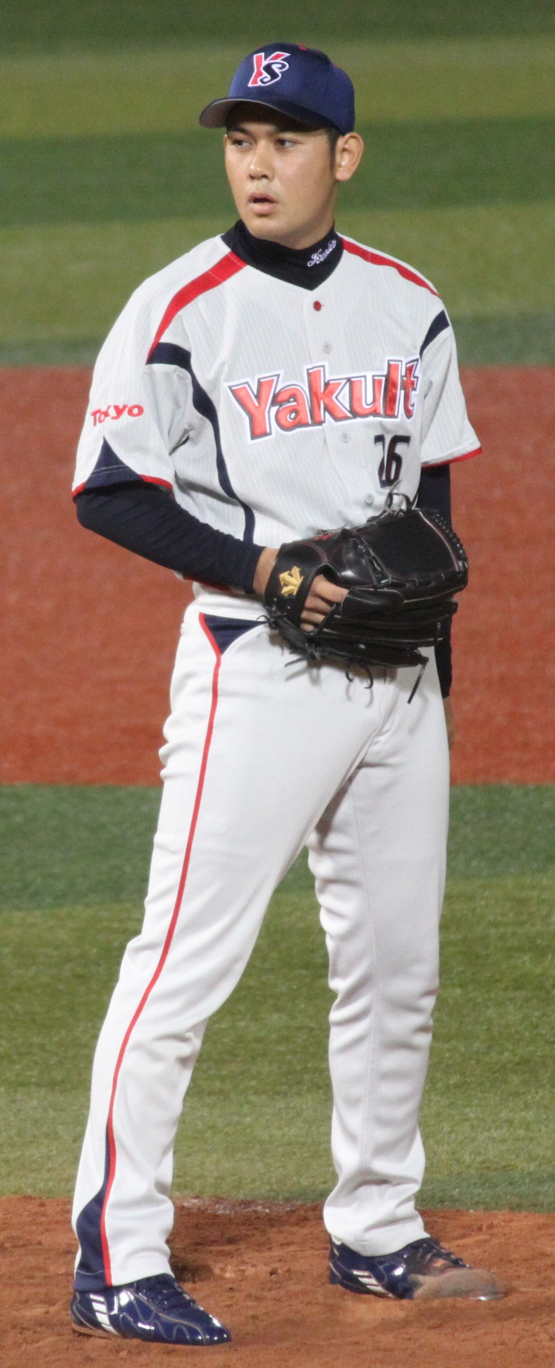 Kentaro Kyuko, pitcher of the Tokyo Yakult Swallows, at Yokohama Stadium.